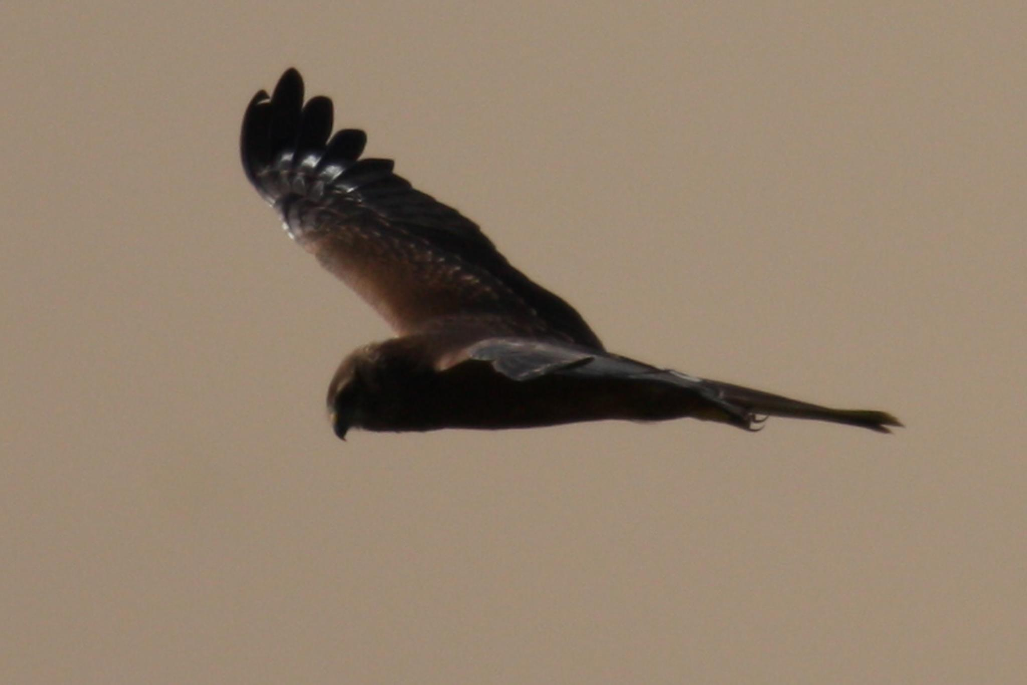 A juvenile male Pied Harrier (Circus melanoleucos)